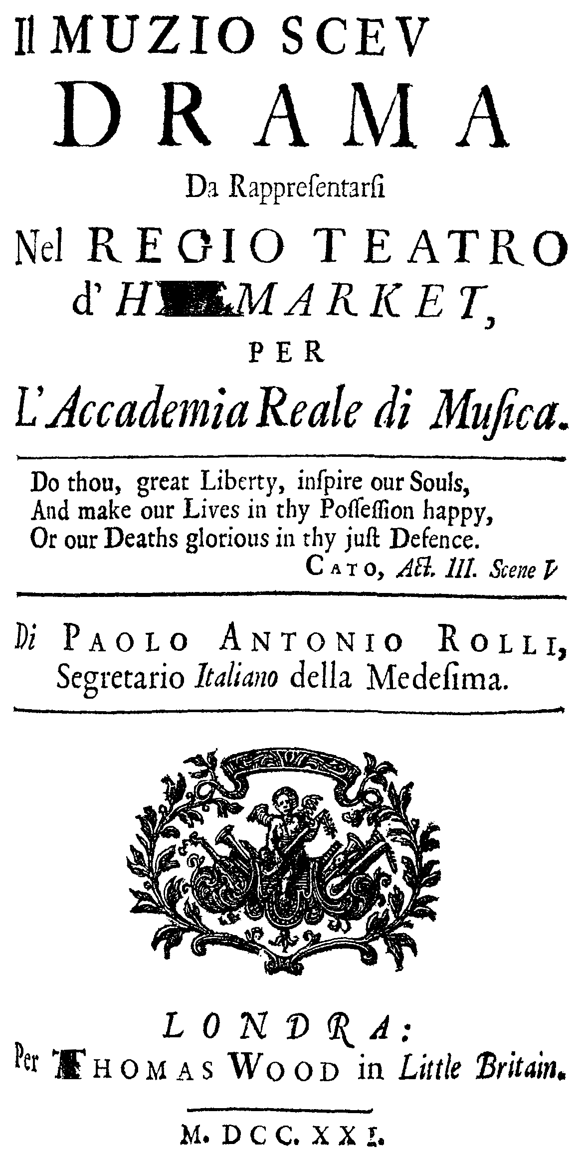 Georg Friedrich Händel et. al. - Il Muzio Scevola - title page of the libretto - London 1721